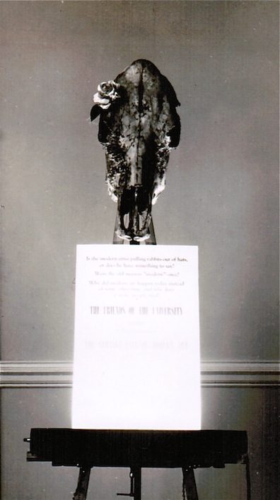 Macabre Flower Arrangement